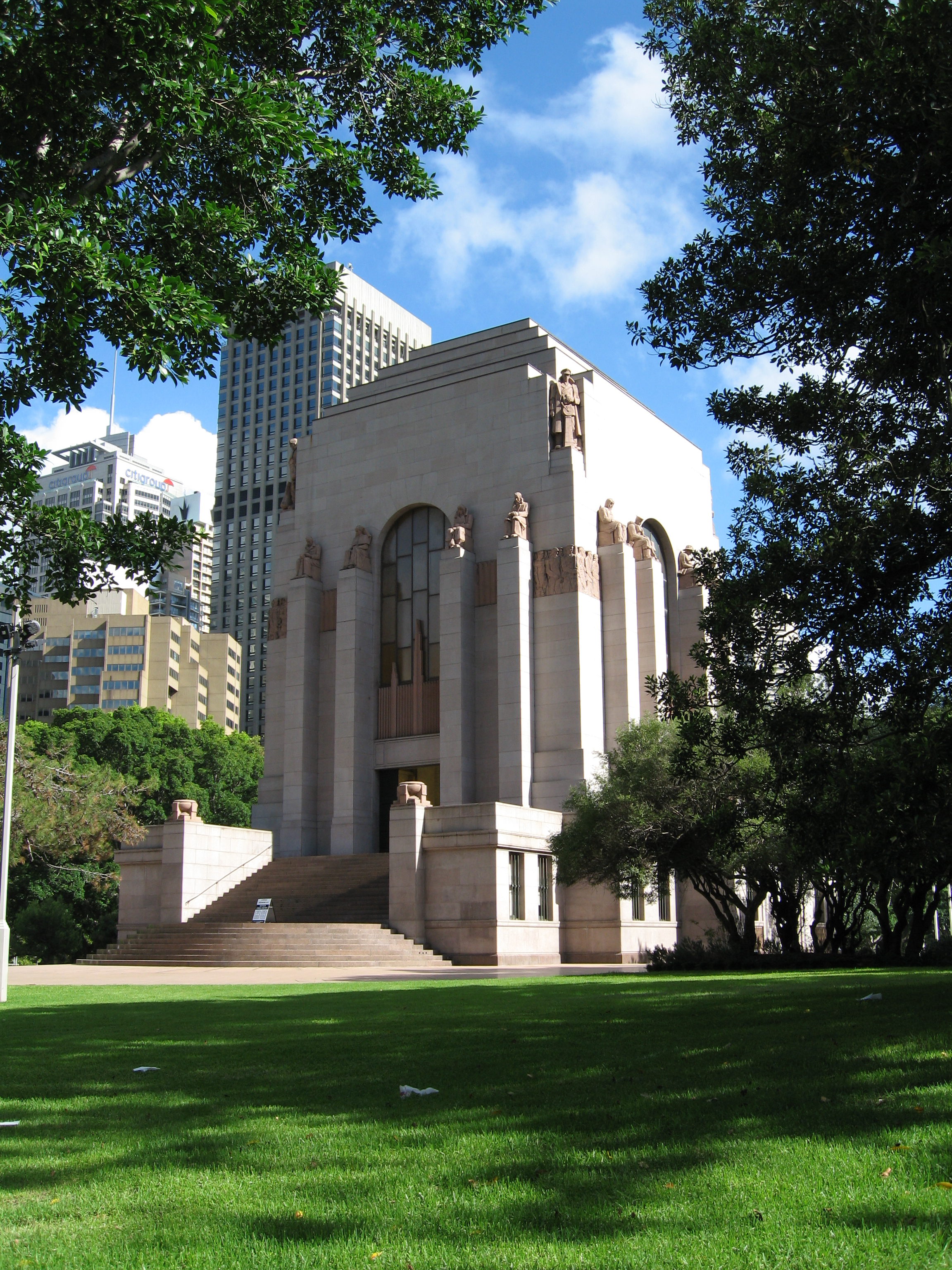 ANZAC War Memorial, Hyde Park, Sydney, Australia.